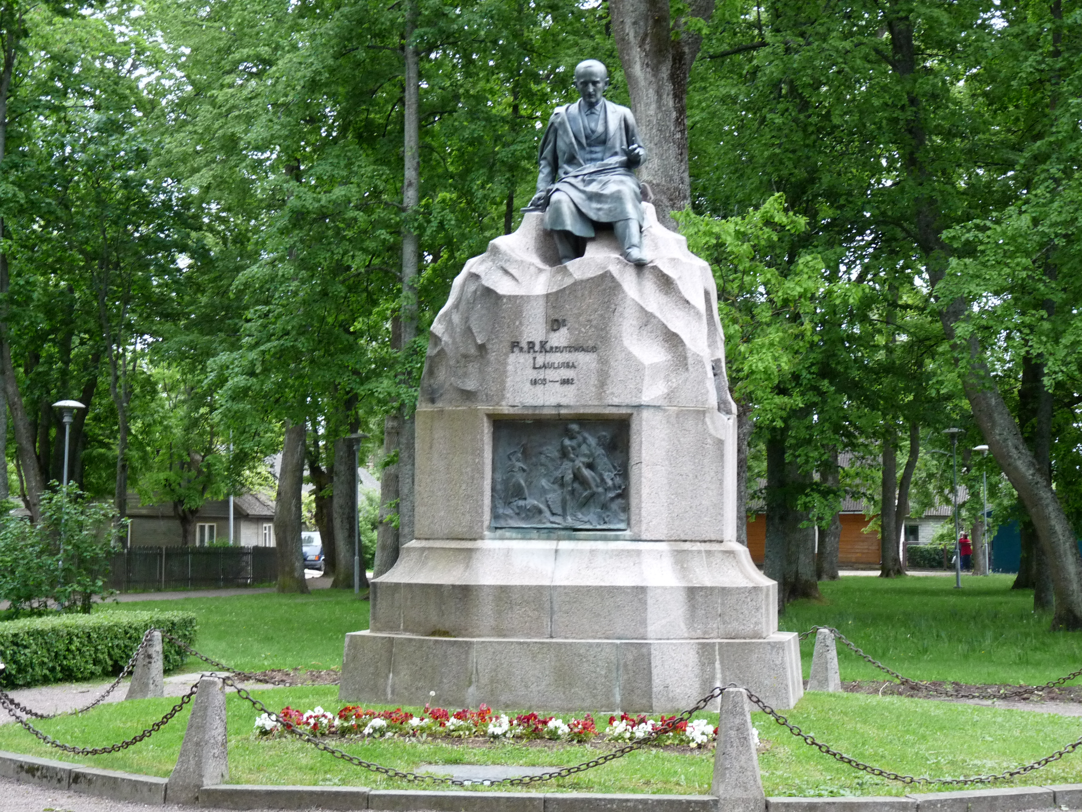 Monument for the Estonian poet F.R. Kreutzwald in Võru. Statue made by Amandus Adamson in 1926